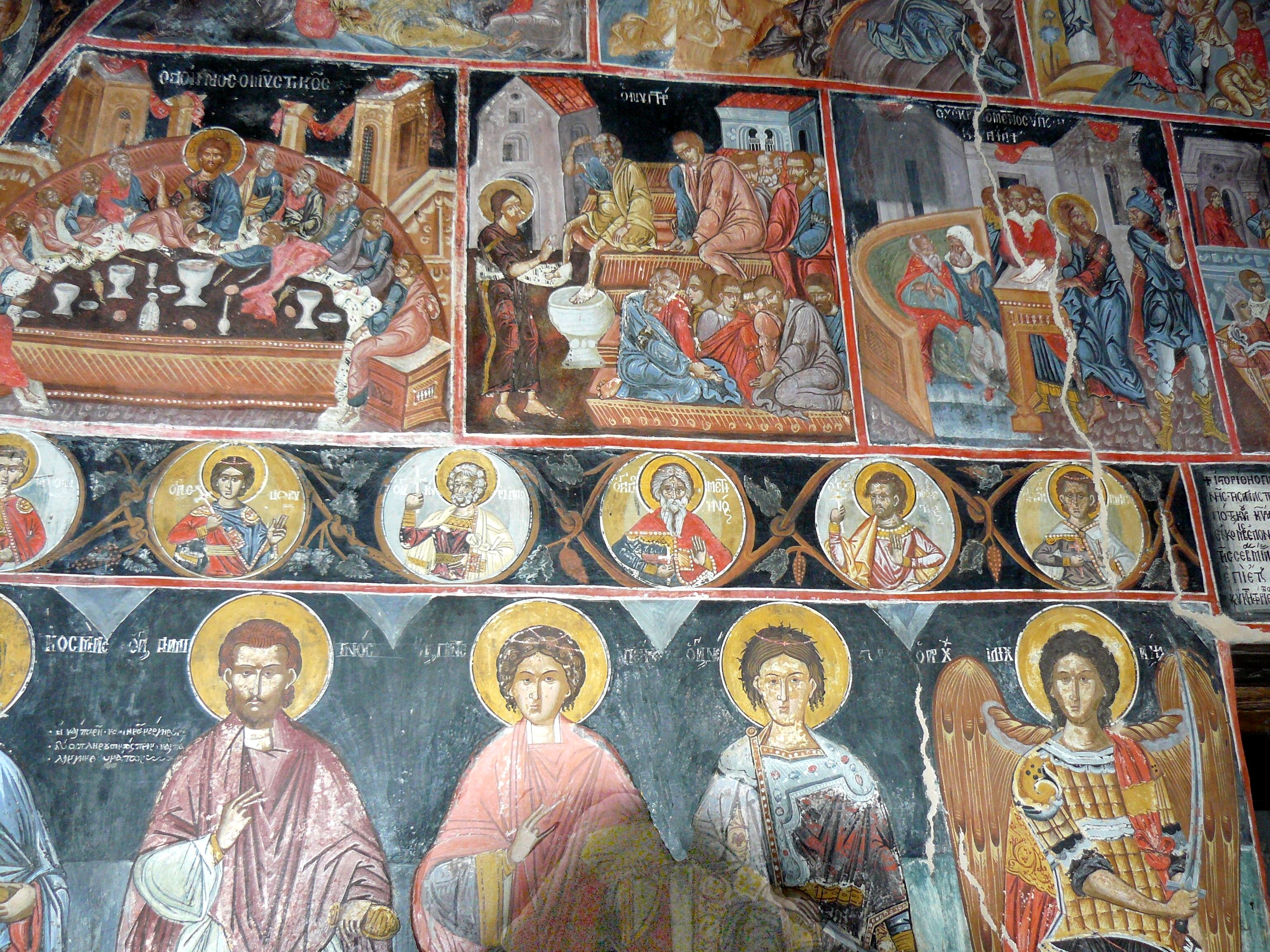 Frescoes on walls of the main temple (katholiko) in the Monastery of Holy Trinity (Moni Agias Triados), Meteora, Greece.